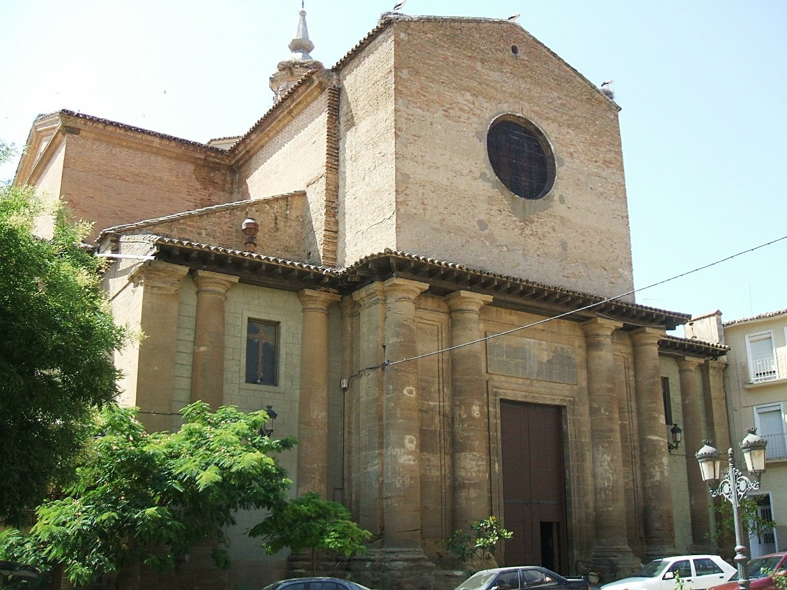 Iglesia parroquial de San Salvador, Sariñena, Huesca, Aragón, España